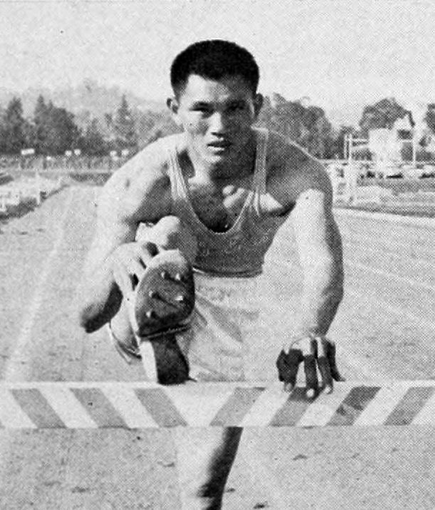 Olympic decathlete C. K. Yang on the UCLA track & field team.